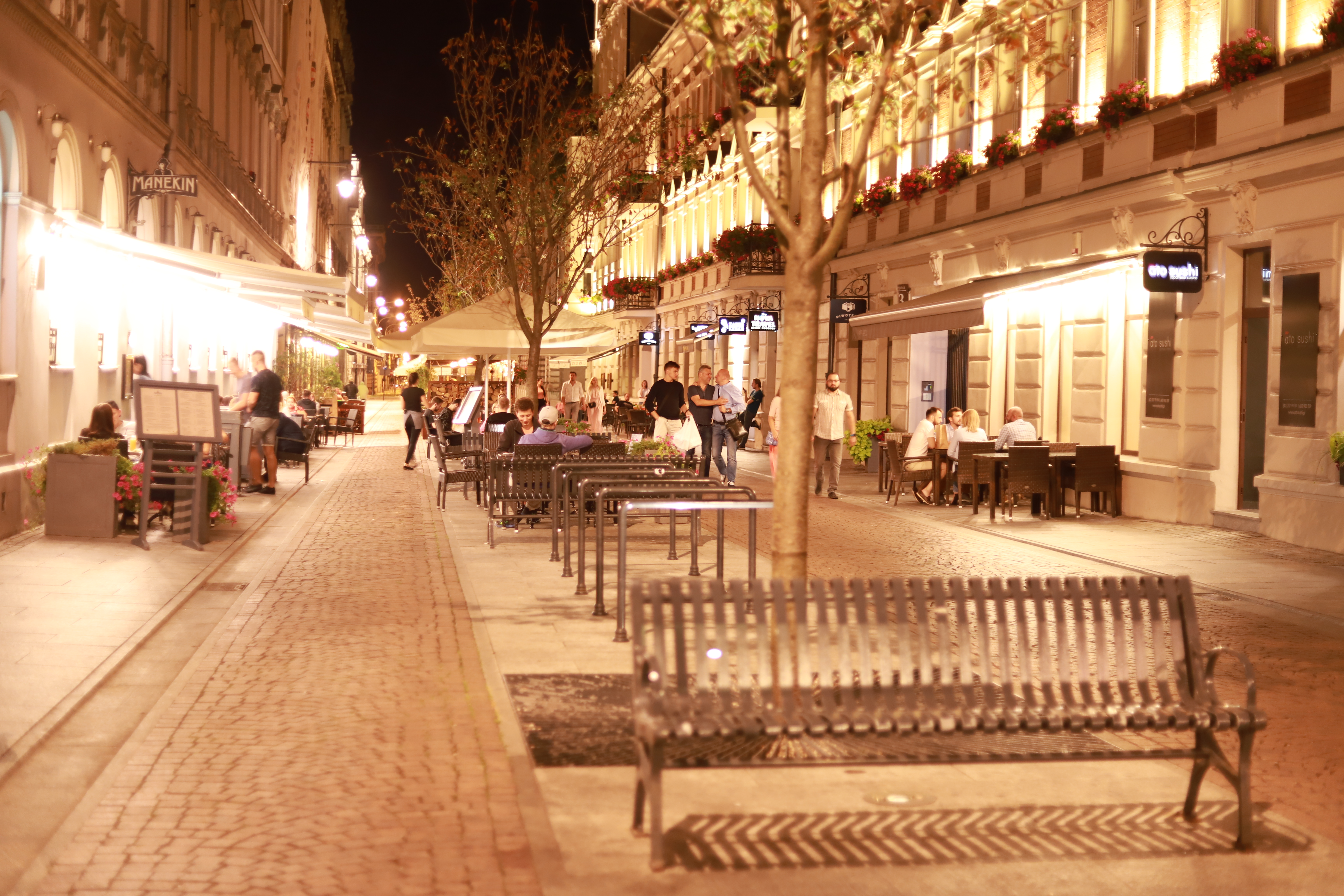 Lodz, August 2018. Sierpnia Street